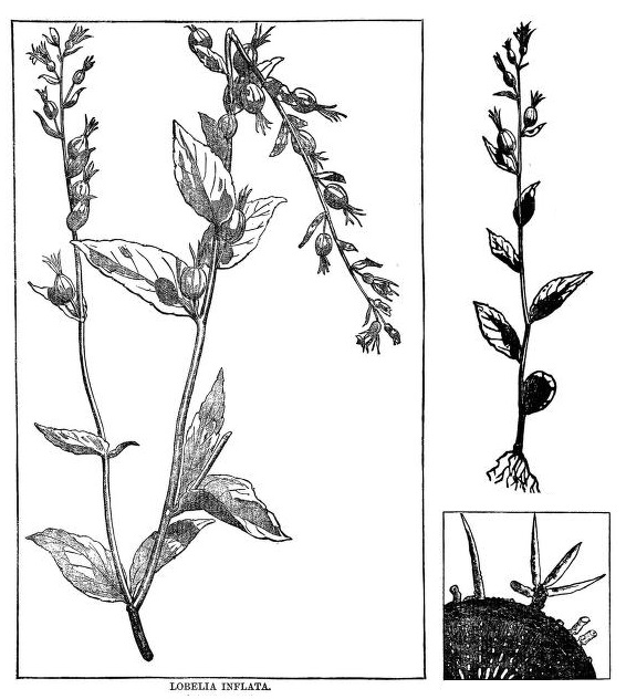 Lobelia inflata, a drawing found in Samuel Thomson's book